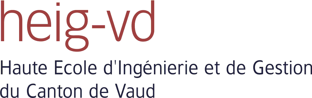 old HEIG-VD logo since 2004, until 2015.